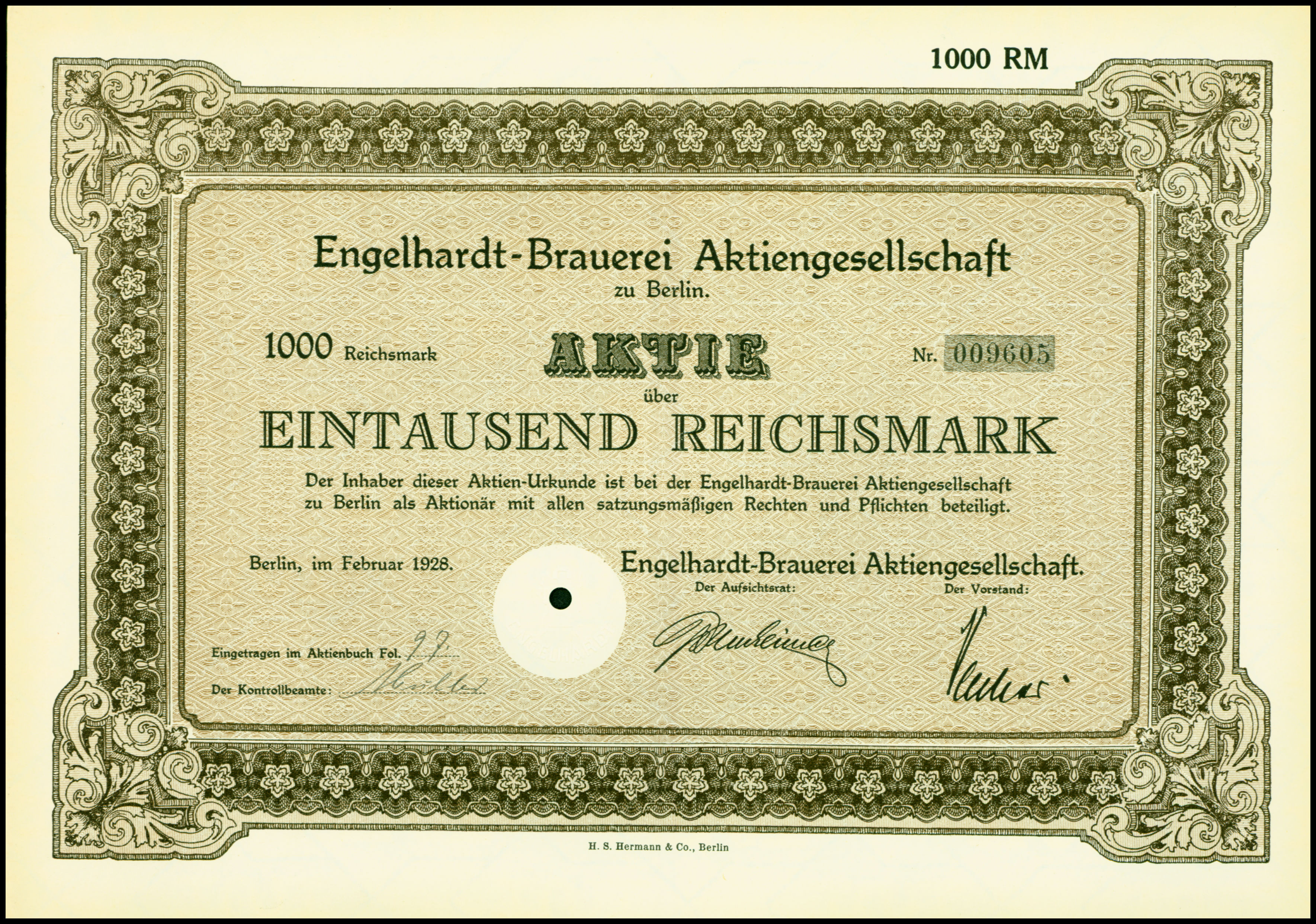 Share of the Engelhardt-Brauerei AG, issued February 1928